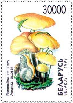 Stamp of Belarus